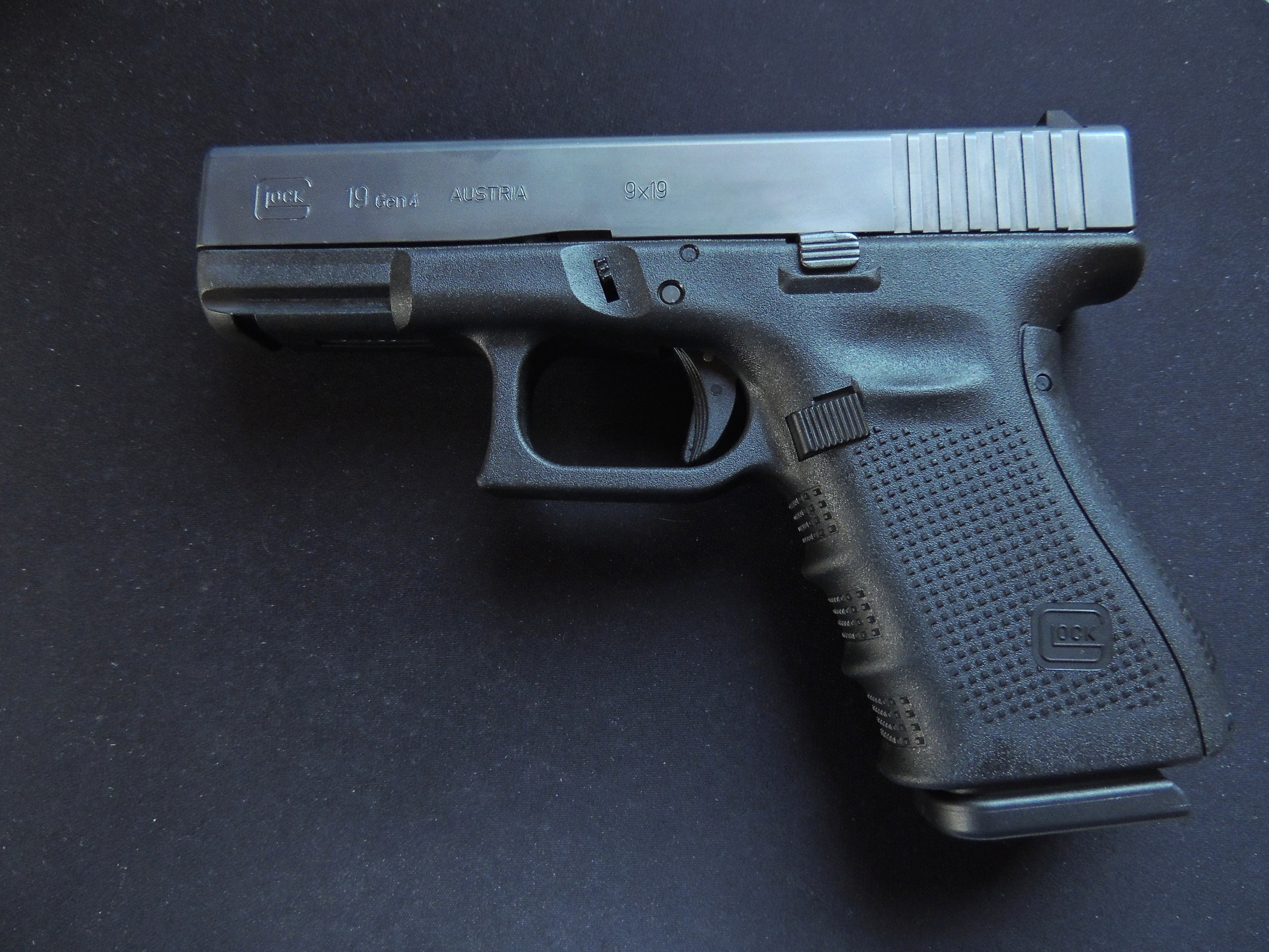 Glock 19 Gen 4